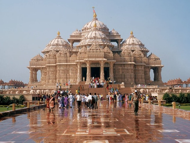 Akshardham Temple Dear Nikhil, Thanks, appreciate your work. Warm Regards, ritesh. From: NiKhiL K. Sent: Tuesday, November 13, 2007 1:58 PM To: Subject: RE: Akshardham Photo Dear Ritesh, First off, Happy Diwali. I have uploaded the image under the Creative Commons Sharealike Attribution 3.0 license. Please let me know if this is okay. I have added it to the Delhi page (Delhi ), the Akshardham Temple page (Akshardham (Delhi)) and the Hinduism page( I will also add it to the culture of india and the india page. This will spread a lot of information about Hinduism and the Temple itself. Thanks for all your help. Nikhil Dear Nikhil, Thanks for your interest in Akshardham. You can use the photos from the website for Wikipedia. If there is a setting which we need to make on the Akshardham website, please let us know. Otherwise, please count this email as permission for you to use the images on on articles about Akshardham, India, Indian Culture. Warm Regards, ritesh. Forwarded message ---------- From: NiKhiL K. Date: Nov 7, 2007 3:05 AM Subject: Akshardham Photo To: Hello, I am Nikhil. I'm a volunteer editor on Wikipedia. We were wondering if we could use an image of the New Delhi Temple on Wikipedia, the free online encyclopedia. You would be given credit of course and a link to your site would be placed. You would have to set the license of this image to Creative Commons attribution sharealike. Many other flickr users have had their works published in blogs, newspapers, and magazines this way. This would be a great way to advertise and inform people around the world about Akshardham. We hope you will help us improve Wikipedia since millions of people use it everyday. Your help will improve the India related articles on the site. Look forward to hearing from you. Thanks so much. Nikhil